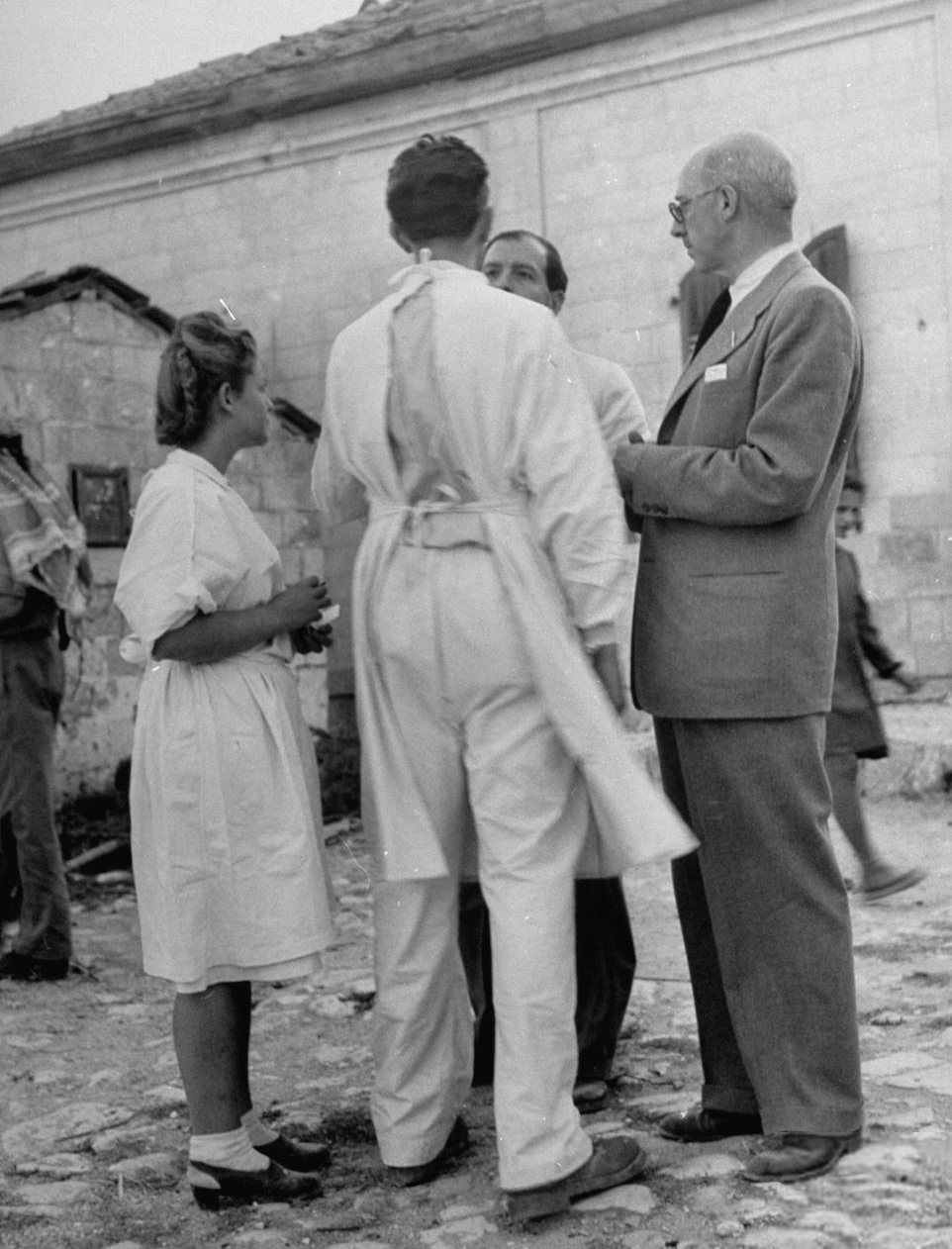 Pablo de Azcarate (R) of the United Nations Truce Commission talking to doctors and a nurse.